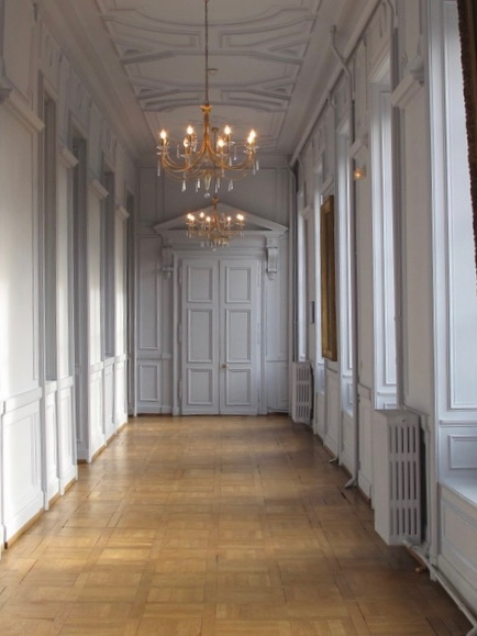 Notre-Dame International High School corridor